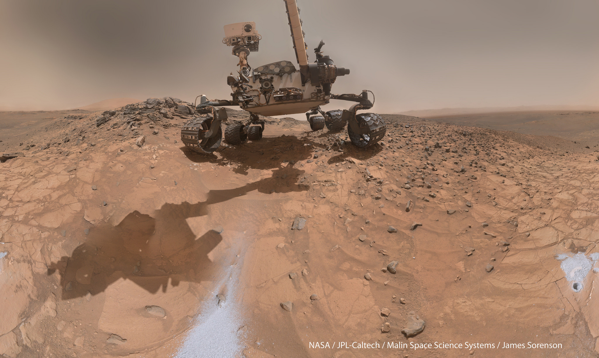 Curiosity captured this on Sol-1065 (August 5th, 2015) using its MAHLI camera on the end of the arm to mark its 3rd year on Mars.